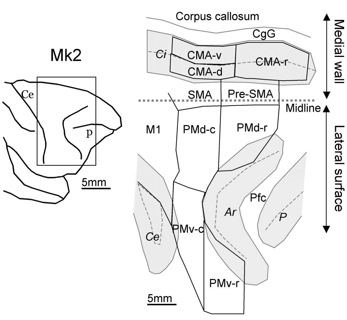 Macaque monkey's premotor areas. Premotor areas represented on a two-dimensional map of the cortex. On the left, surface view of the anterior part of the right hemisphere. The rectangle indicates the cortical region flattened and shown on the right. On the 2-D map, sulci are represented by shaded zones, the dashed lines indicate the fundus of the sluci. The premotor subdivisions are defined on the basis of SMI-32 staining (see text). Abbreviations: Ar, arcuate sulcus; Ce, central sulcus; CgG, cingulate gyrus; Ci, cingulate sulcus; CMA-d, r and v, dorsal rostral and ventral parts of the cingulate motor area, respectively; P = sulcus principalis; M1, primary motor cortex; PMd-c, r, caudal and rostral parts of the dorsal premotor cortex; PMv-c, r, caudal and rostral parts of the ventral premotor cortex; pre-SMA, rostral part of the SMA; SMA-proper, caudal part of the SMA.